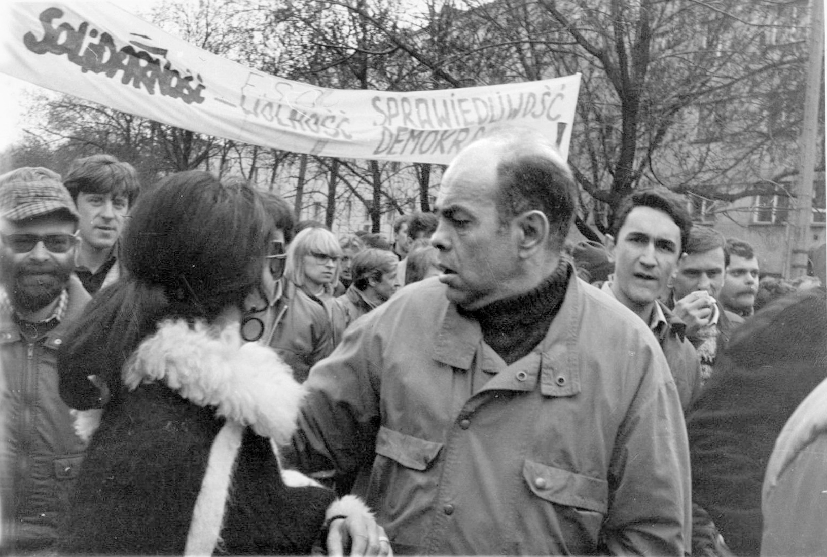 Black - white photograph of the 1989 May 1 demonstration Day with the participation of the opposition and Jacek Kuron